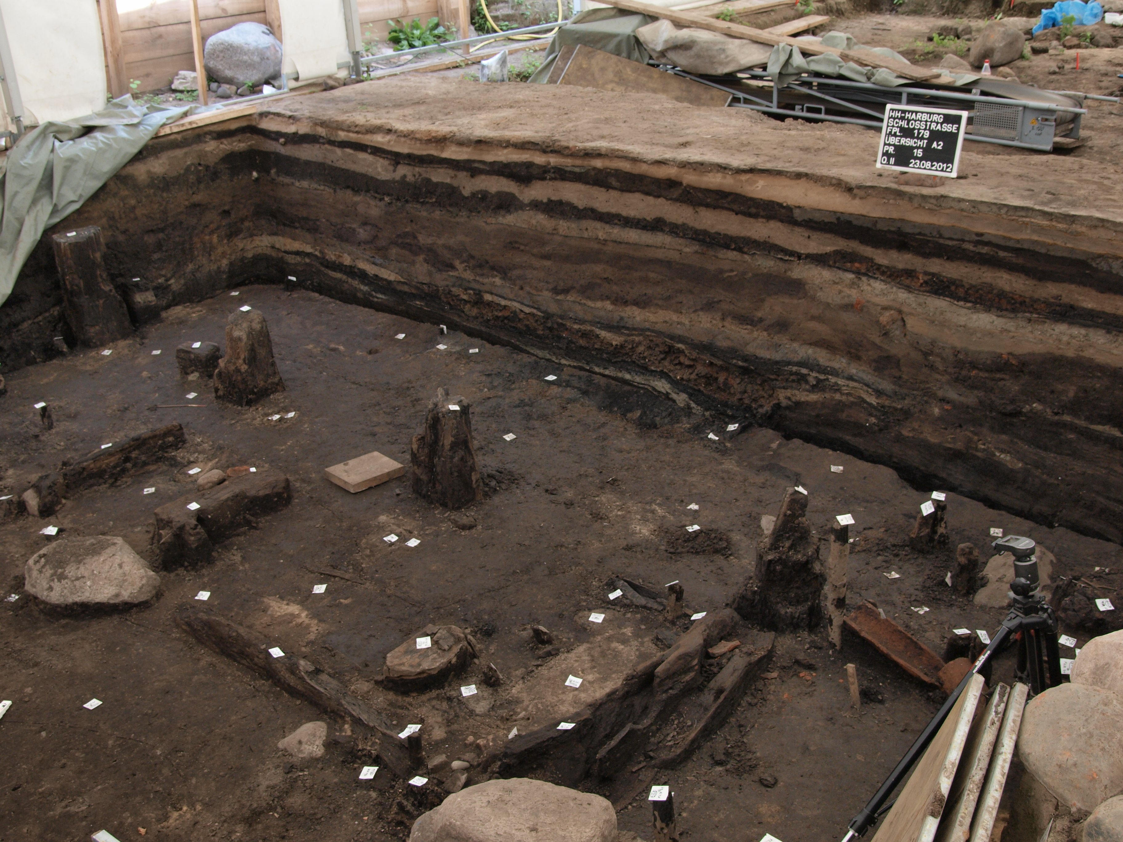 Archaeological excavations at Harburger Schloßstraße, in Hamburg-Harburg, Germany by Archaeological Museum Hamburg in summer 2012. Stratigraphic profile with stilts and horizont of the 16th century.